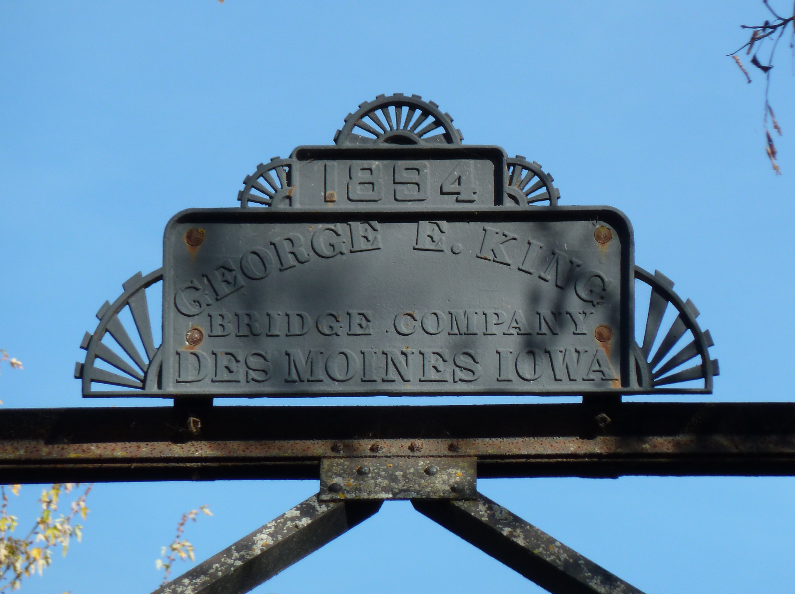 The Builder's Plate of Bridge No. L-5573, Clinton Falls Township, Minnesota, USA.